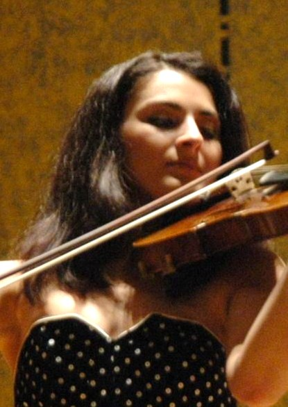 Lilya Bekirova (* 1982), Uzbek violinist